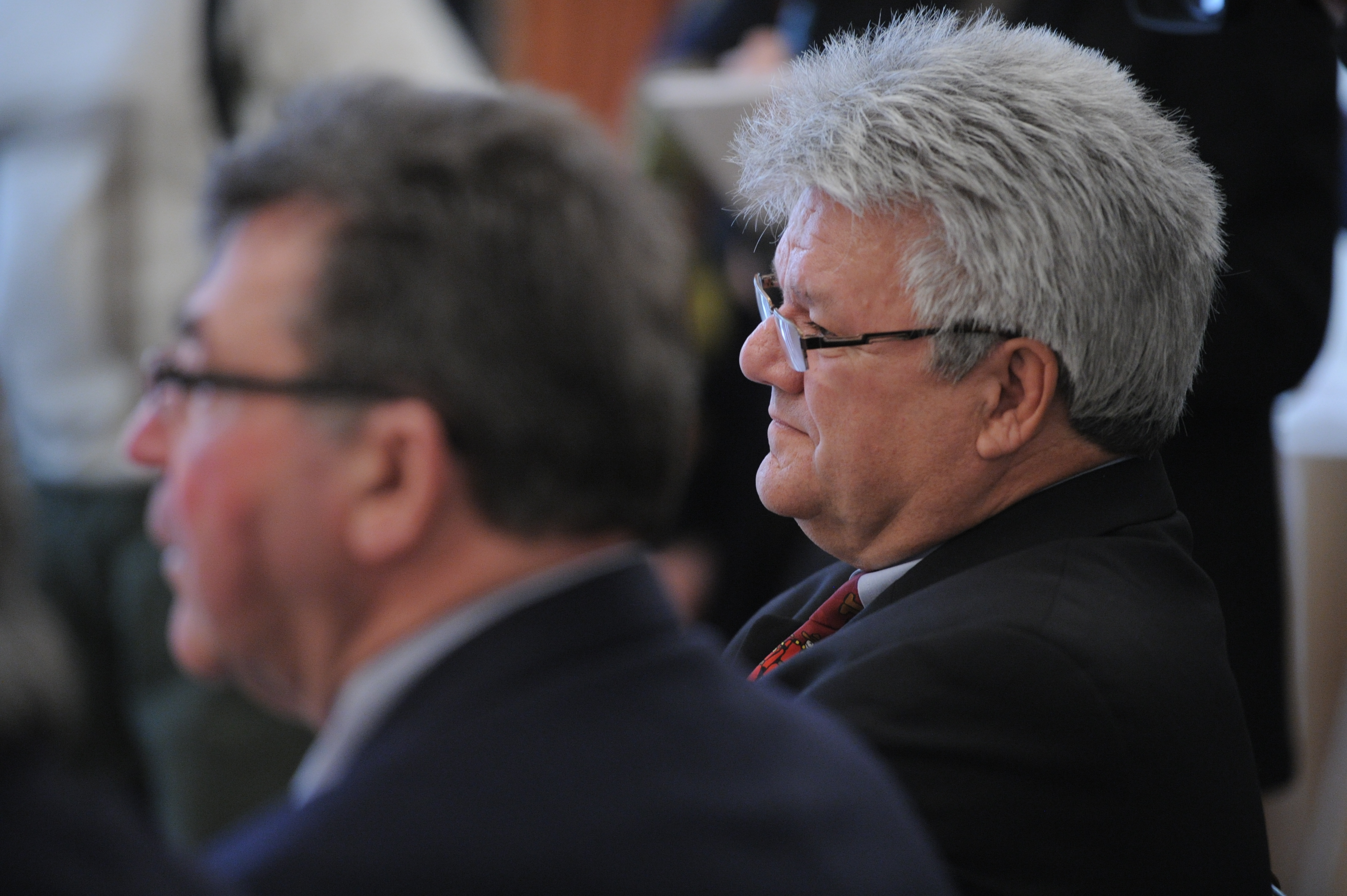 Canadian centre (ice hockey) Marcel Elphege Dionne